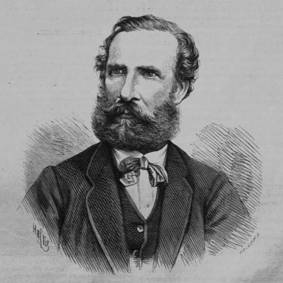 Portrait of Pál Rosti